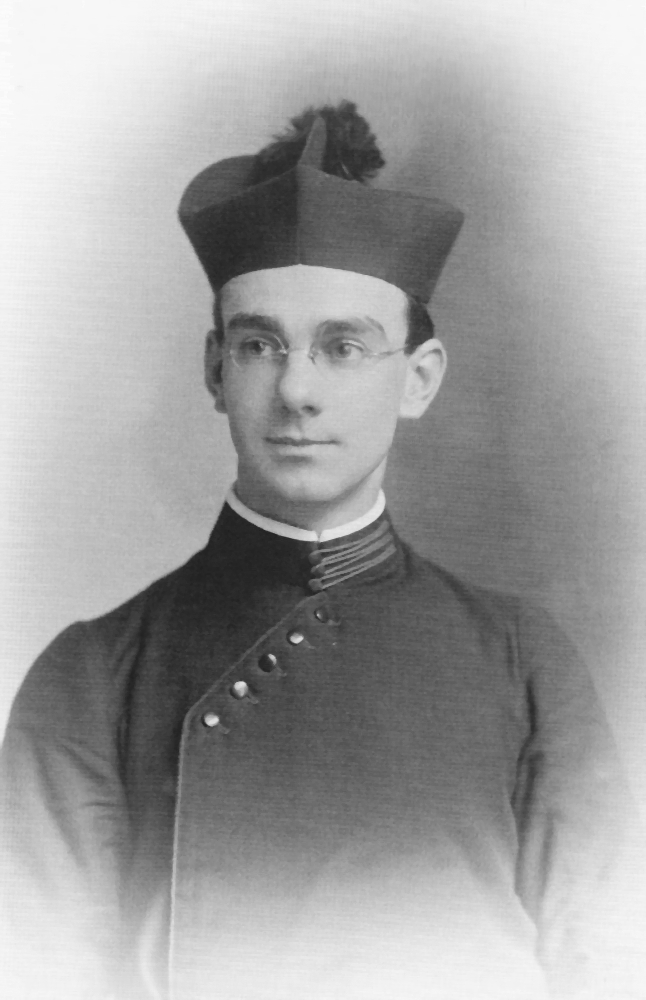 Portrait of Matthew Beovich, 1919.